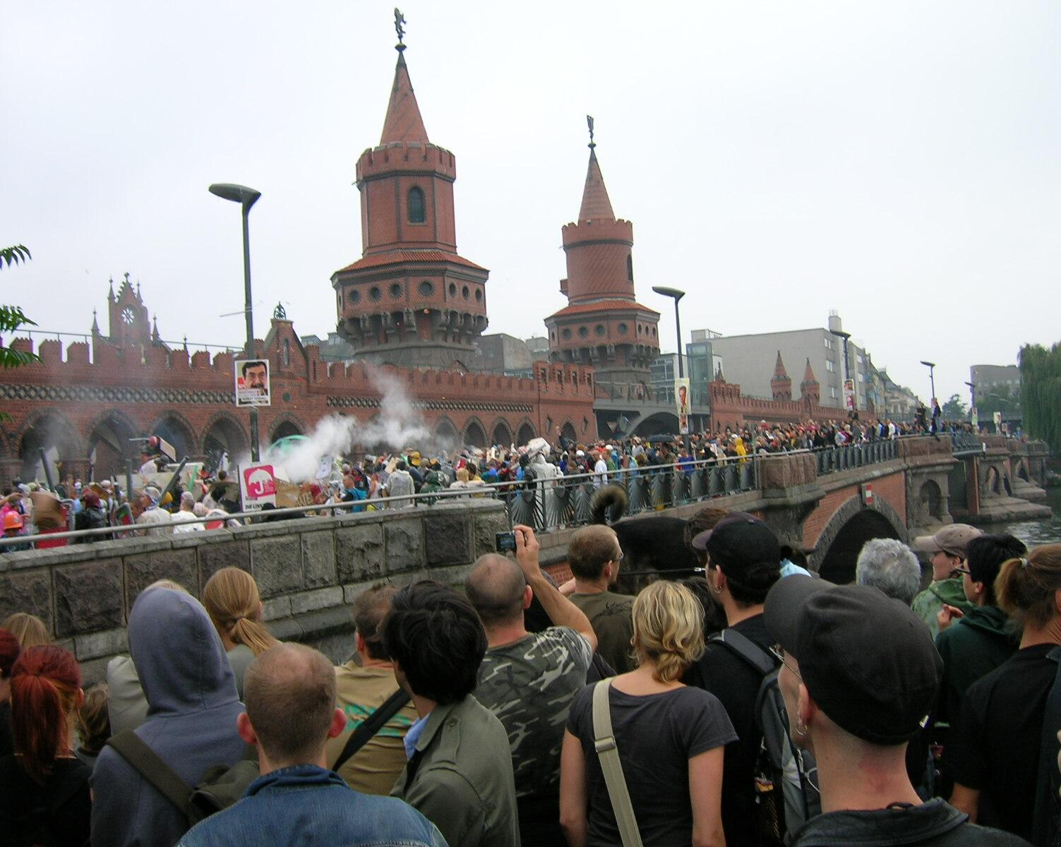 "Water battle" at the Oberbaumbrücke in Berlin between the formerly separate districts Kreuzberg and Friedrichshain